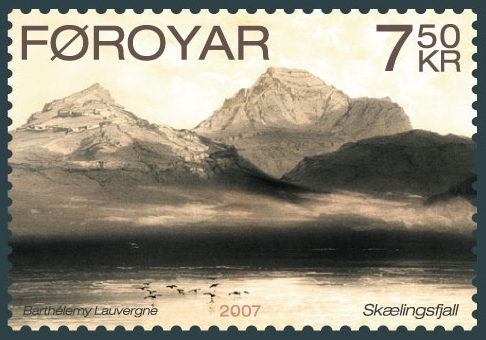 Stamp FO 589 of the Faroe Islands: Ancient Lithographs 1839